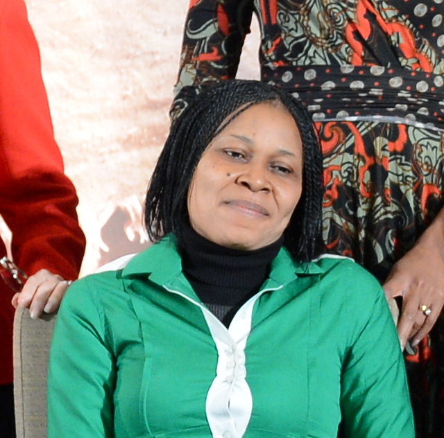 Josephine Obiajulu Odumakin taken from a larger pic - Standing from left to right, Mrs. Teresa Heinz Kerry, First Lady Michelle Obama, U.S. Secretary of State John Kerry, and U.S. Under Secretary of State for Political Affairs Wendy Sherman pose for a photo with the 2013 International Women of Courage Award Winners, including left to right, Second Lieutenant Malalai Bahaduri of Afghanistan, Dr. Josephine Obiajulu Odumakin of Nigeria, Elena Milashina of Russia, Fartuun Adan of Somalia, and Julieta Castellanos of Honduras, at the U.S. Department of State in Washington, D.C., on March 8, 2013. [State Department photo/ Public Domain]